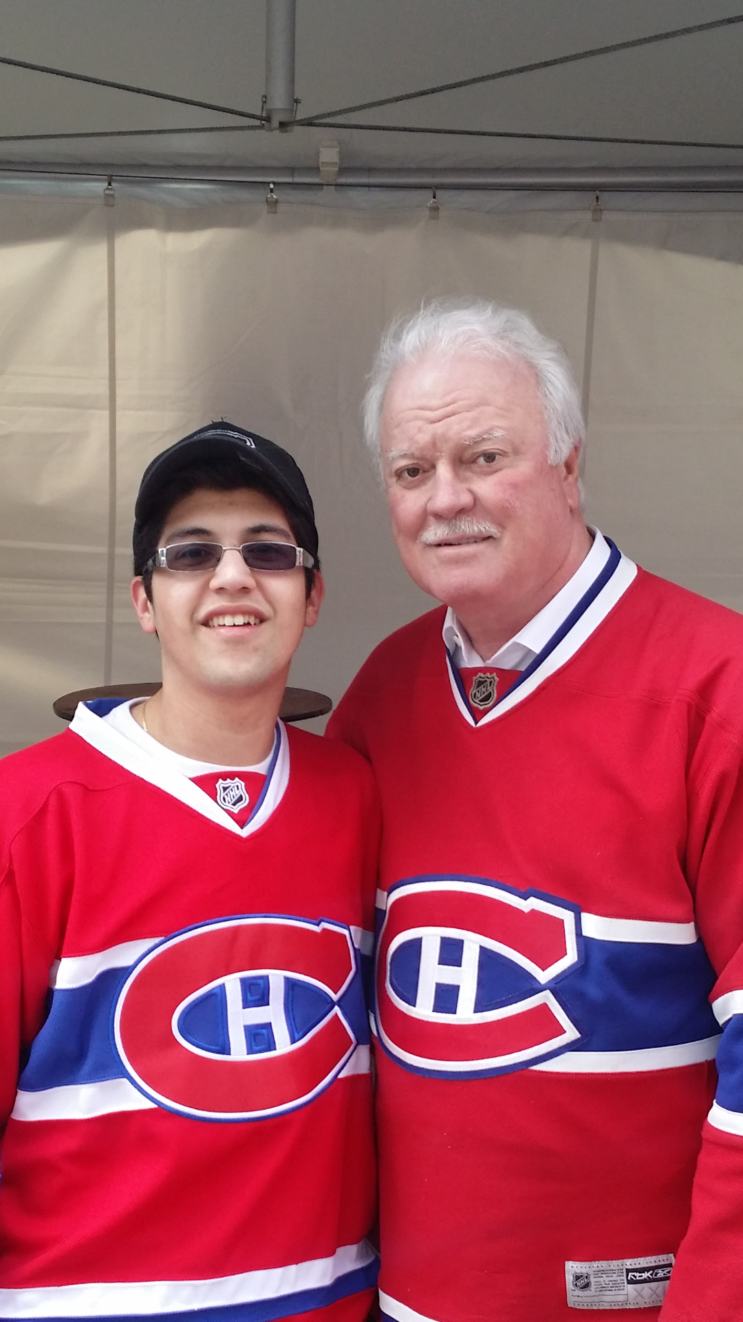 Picture was taken, 5/6/2014, in front of the bell centre in montreal before the Montreal vs Boston round 2 playoff game. Picture shows Yvon Lambert with a fan